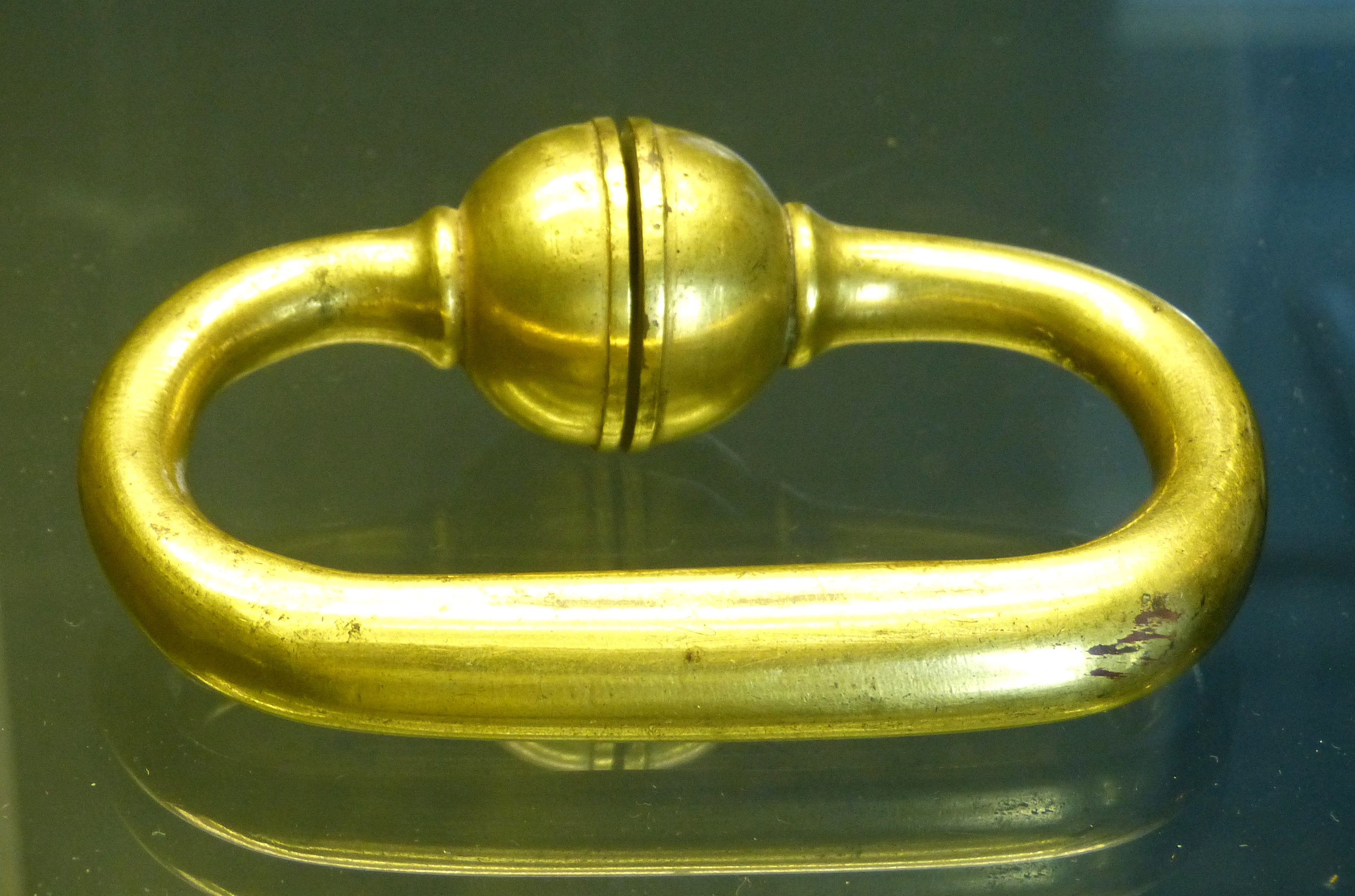 Groß Raden ( Mecklenburg ). Archaeological museum: Late bronze age golden oath ring ( 950-700 BC ) from Bresegard, Ludwigslust district.